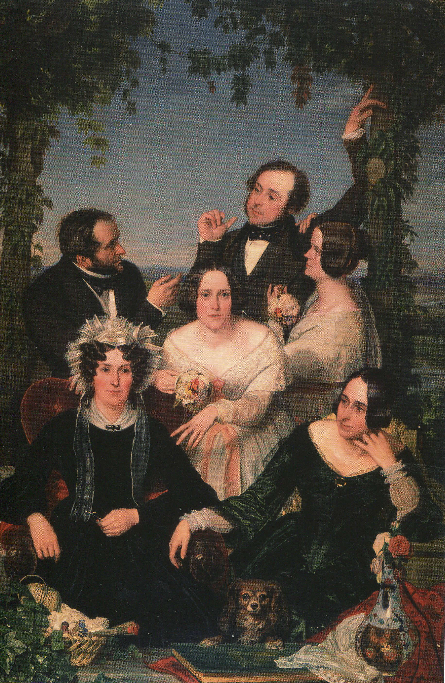 Painting by Madox Brown dated 1844 now in the Manchester City Galleries